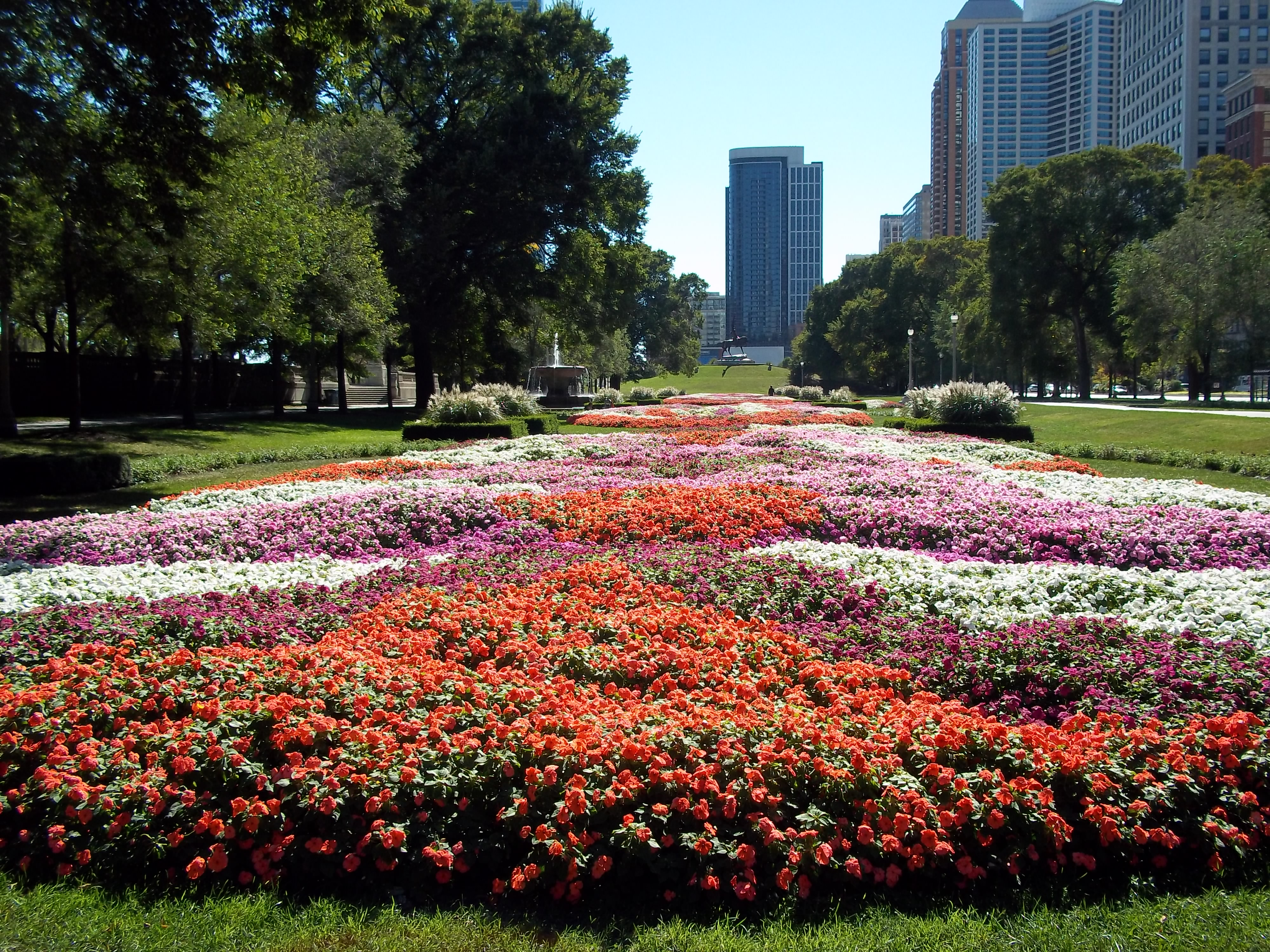 Garden flowers in Grant Park near Michigan Avenue and 9th Street